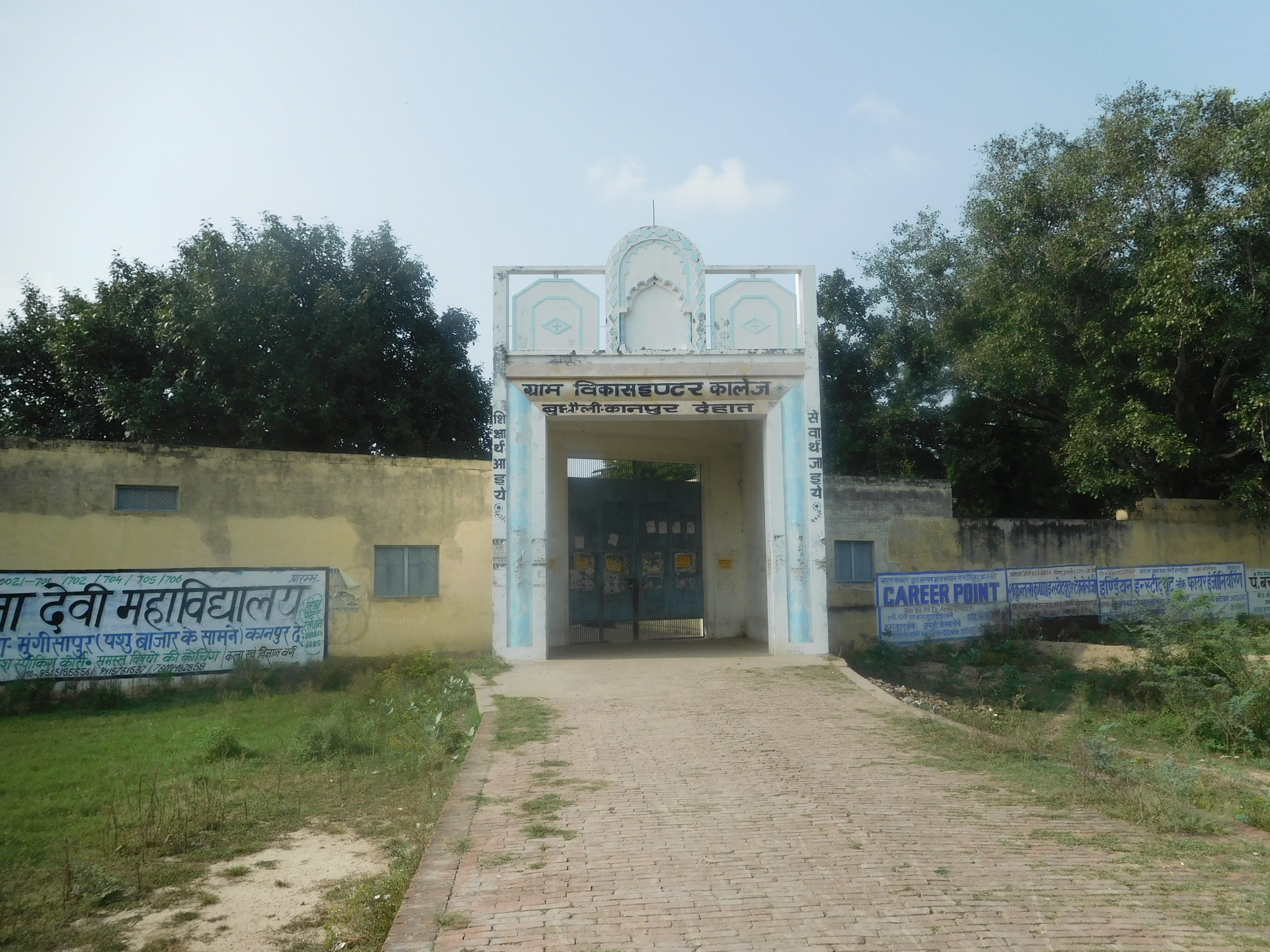 Gram Vikas Inter College Budhauli,Kanpur Dehat,UP,India